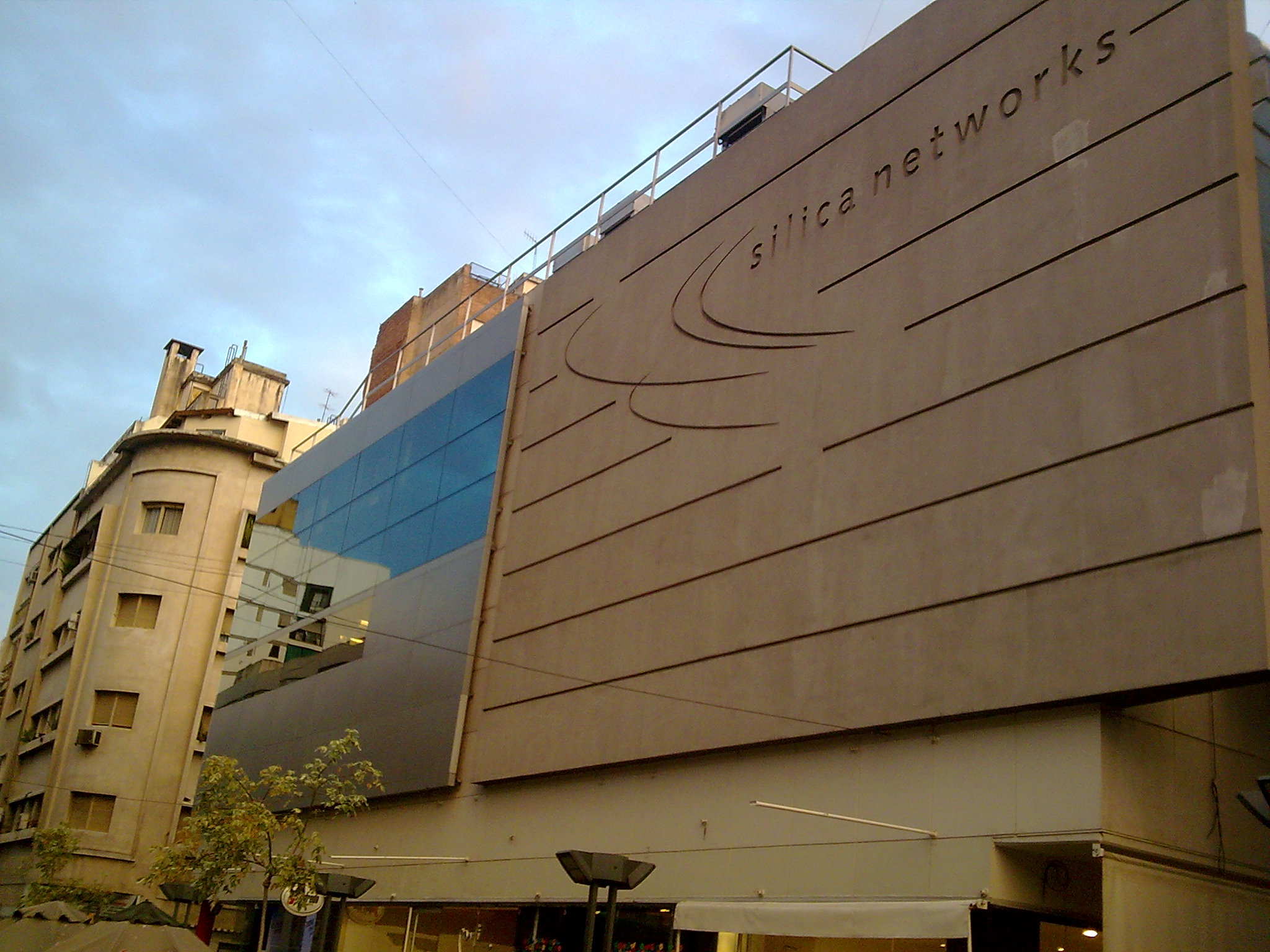 Silica networks' offices, high-tech company in Cordoba, Argentina.